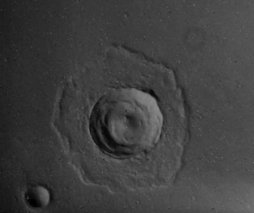 Bled crater on Mars. Viking Orbiter 1 camera B (006A52), with clear filter. Despeckled and cropped from original. Resolution about 39 m/pixel. Emission Angle: 15.2 Incidence Angle: 65.5 Latitude: 21.7 Longitude: 329.0 Phase Angle: 59.7